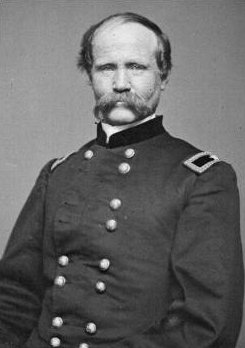 Robert S. Granger, Union General.